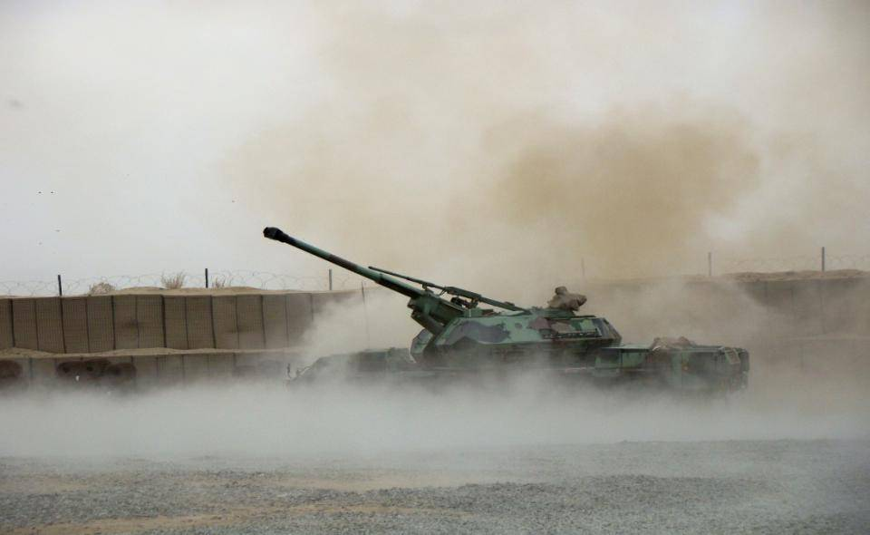 Members of the 1st Battery 23rd Brigade Polish Army, Task Force White Eagle, conduct a fire mission on April 11, 2010 at Forward Operating Base Ghazni. The mission supported the 172nd Cavalry (CAV) Vermont National Guard. The 172nd CAV working with Afghanistan National Police requested the support when their combined unit came under enemy fire while conducting operations. (U.S. Photo by Army Sgt 1st Class Ross Dobelbower/Released)(100411-A-D6939-002)